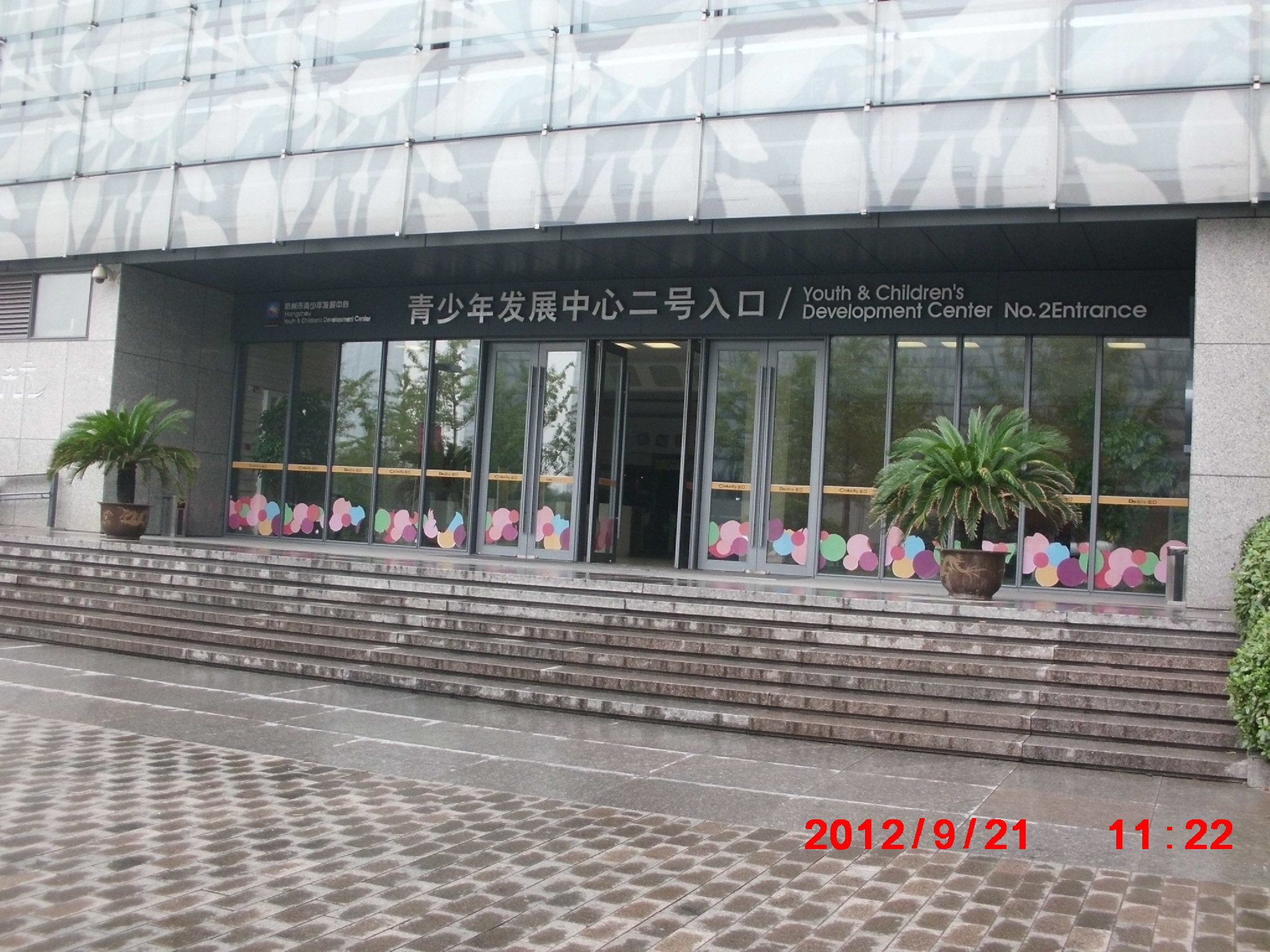 Hangzhou youth and children's development center